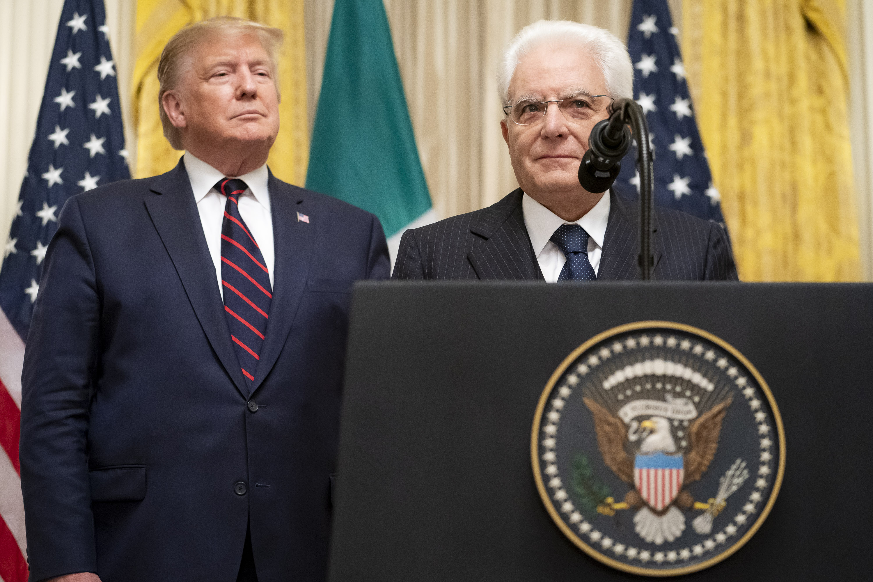 President Donald J. Trump listens as Italian President Sergio Mattarella addresses his remarks at a reception in his honor Wednesday, Oct. 16, 2019, in the East Room of the White House. (Official White House Photo by Tia Dufour)